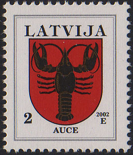 Latvian postage stamp definitive depicting the Auce town coat of arms.